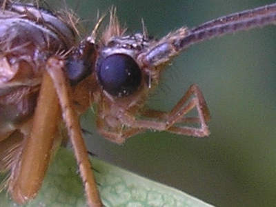 Some species of Caddisfly (Halesus cf. tesselatus) Location: Soderstorf (Lüneburger Heide), Germany Keywords: trichoptera, caddisfly